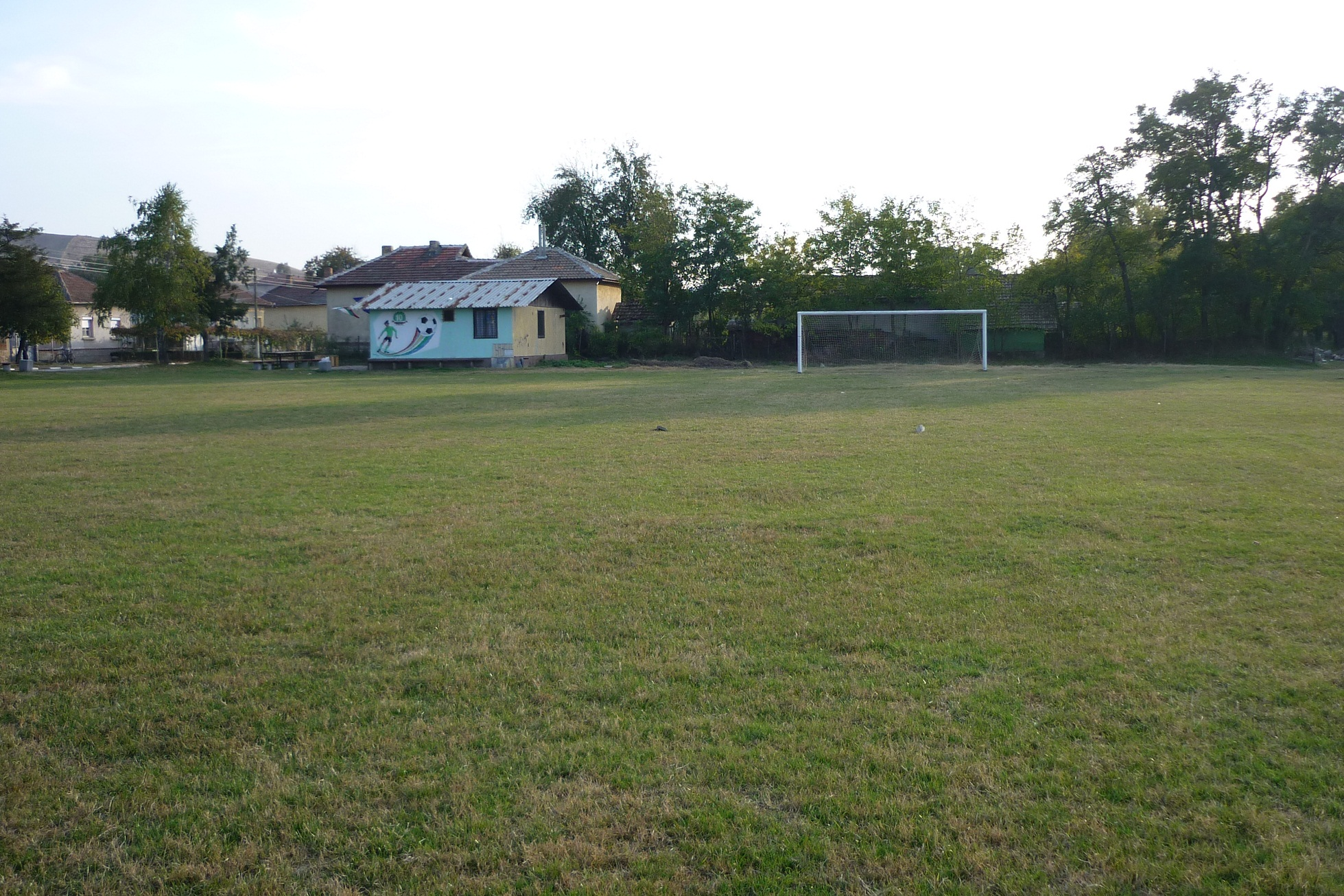 Футбулния стадион